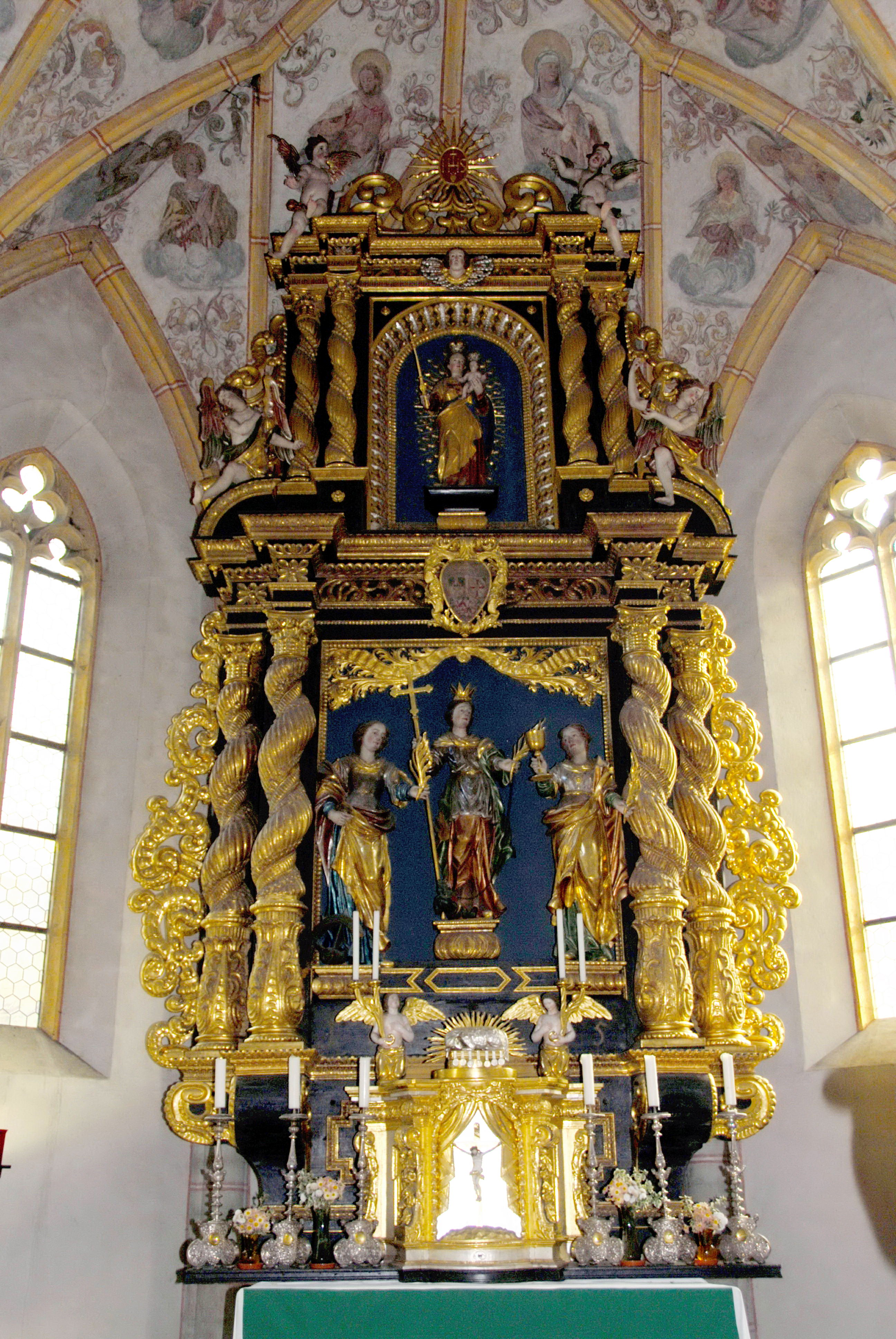 High altar created by Johann Claus in Klagenfurt, 1674, in the parish church at Wieting in the community of Klein Sankt Paul, district Sankt Veit by the river Glan, Carinthia, Austria